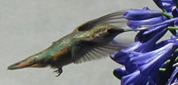 This photo was taken in Davis, California of an Anna's Hummingbird (Calypte anna) in July of 2001. Please see similar images Anna's Hummingbird1.jpg and Anna's Hummingbird3.jpg Image copyright John T. Alfors (User:Aion) 2001. Permission is granted to copy, distribute and/or modify under the GFDL, version 1.2 any later version published by the Free Software Foundation; with no Invariant Sections, with no Front-Cover Texts, and with no Back-Cover Texts.